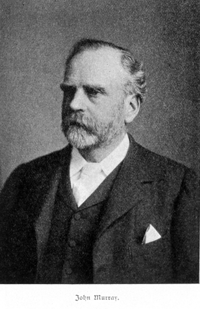 Sir John Murray (1841-1914).